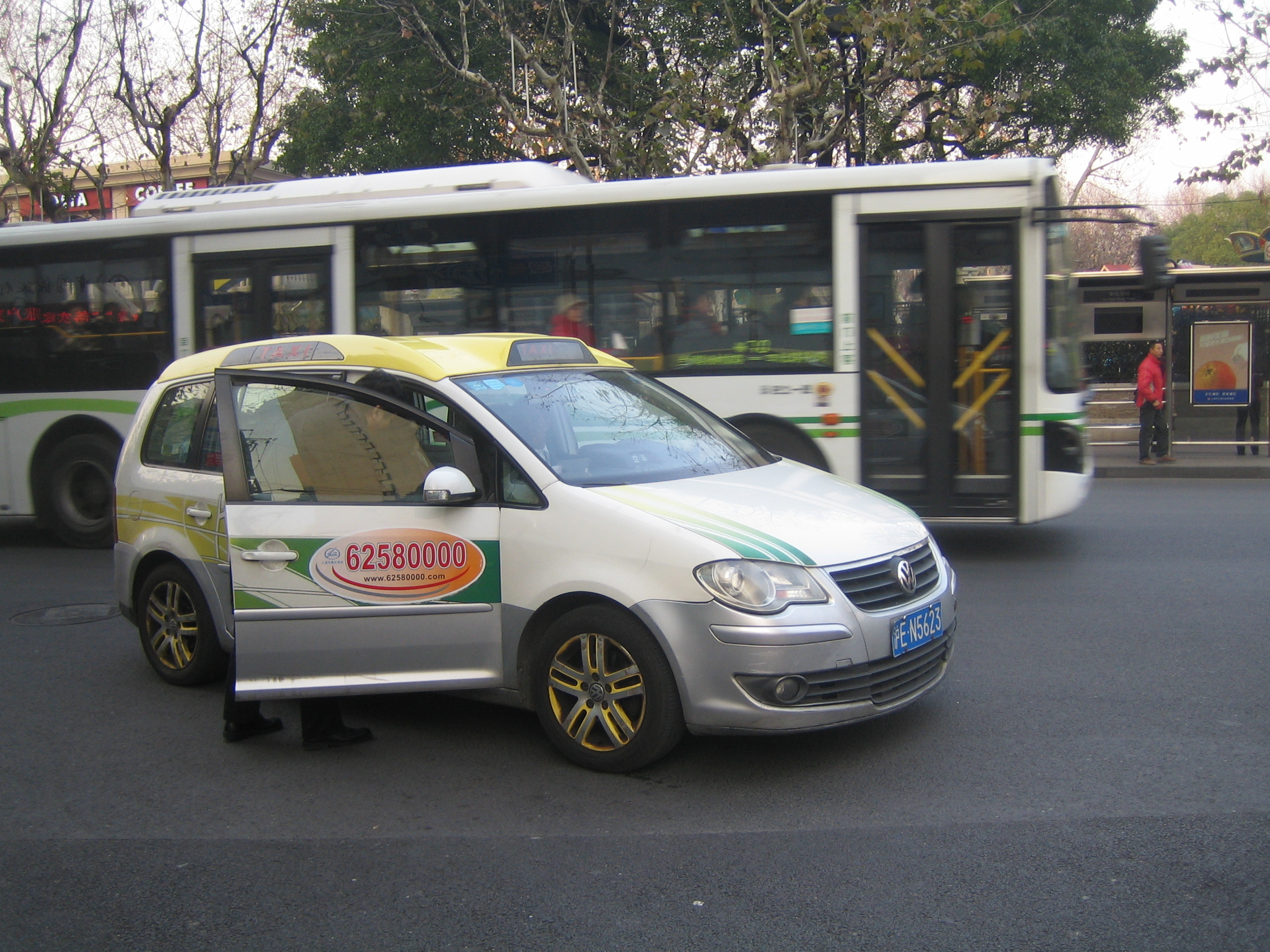 The VW Touran (Taxi) in Shanghai.